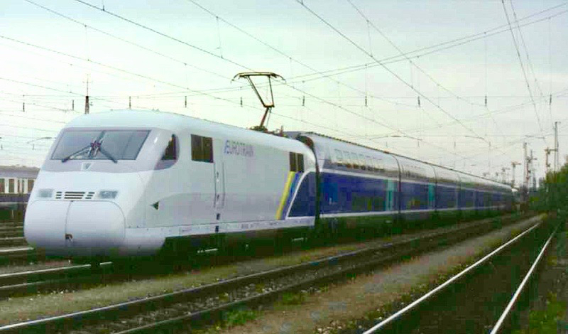 The Eurotrain, a combination of ICE 2 powerheads 402 046 (in front), 402 042 (behind) and the eight-car set of trailers from TGV Duplex trainset #224 in-between, at Munich-Laim on April 4th, 1998.